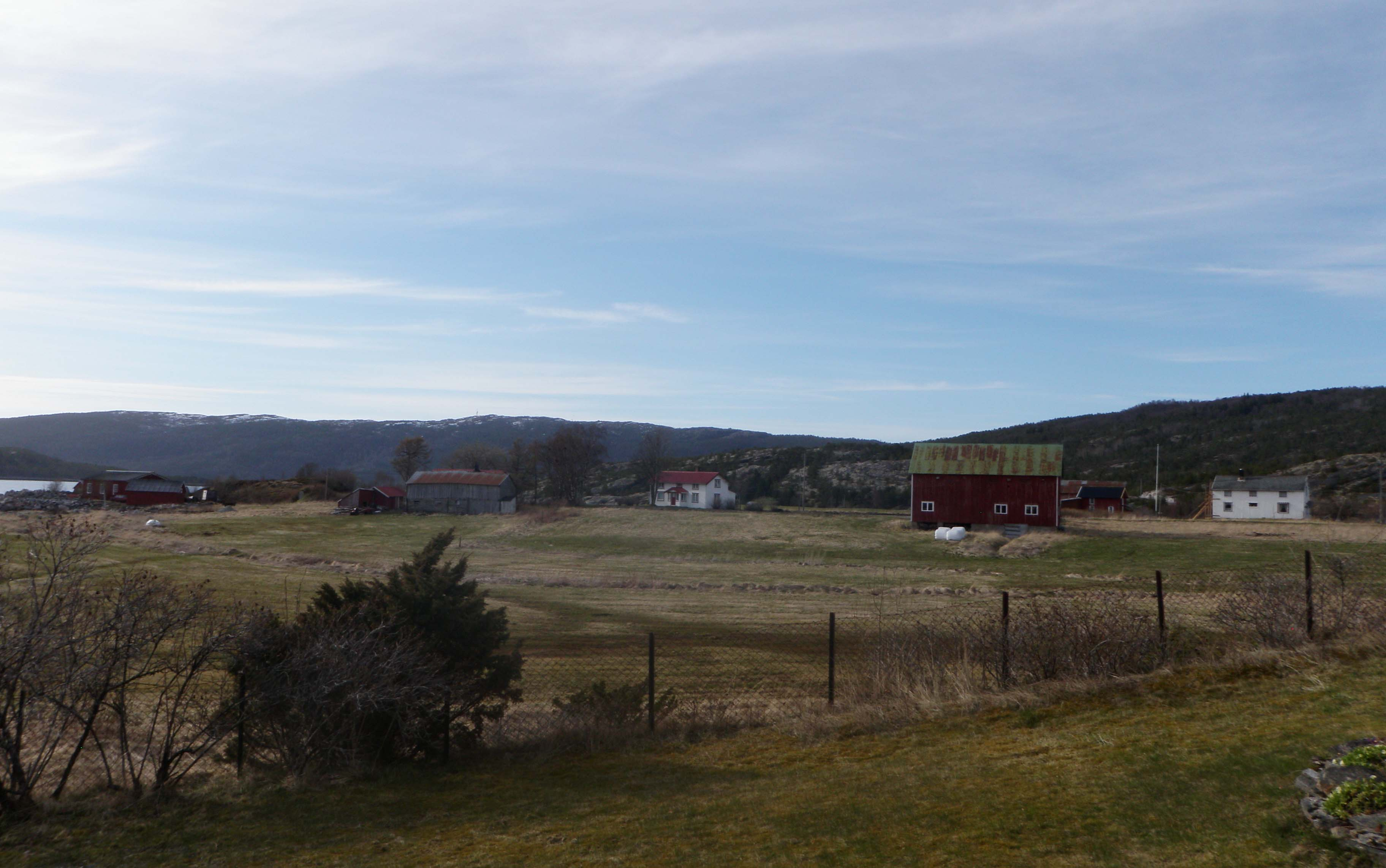 The village of Karlsøy, Nordland, Norway, viewed from Sagfjord Church.